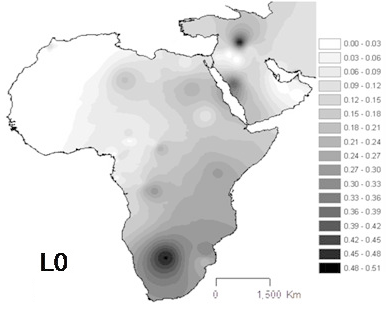 Interpolation maps for L0 haplogroup in the sub-Saharan pool observed in each sample.